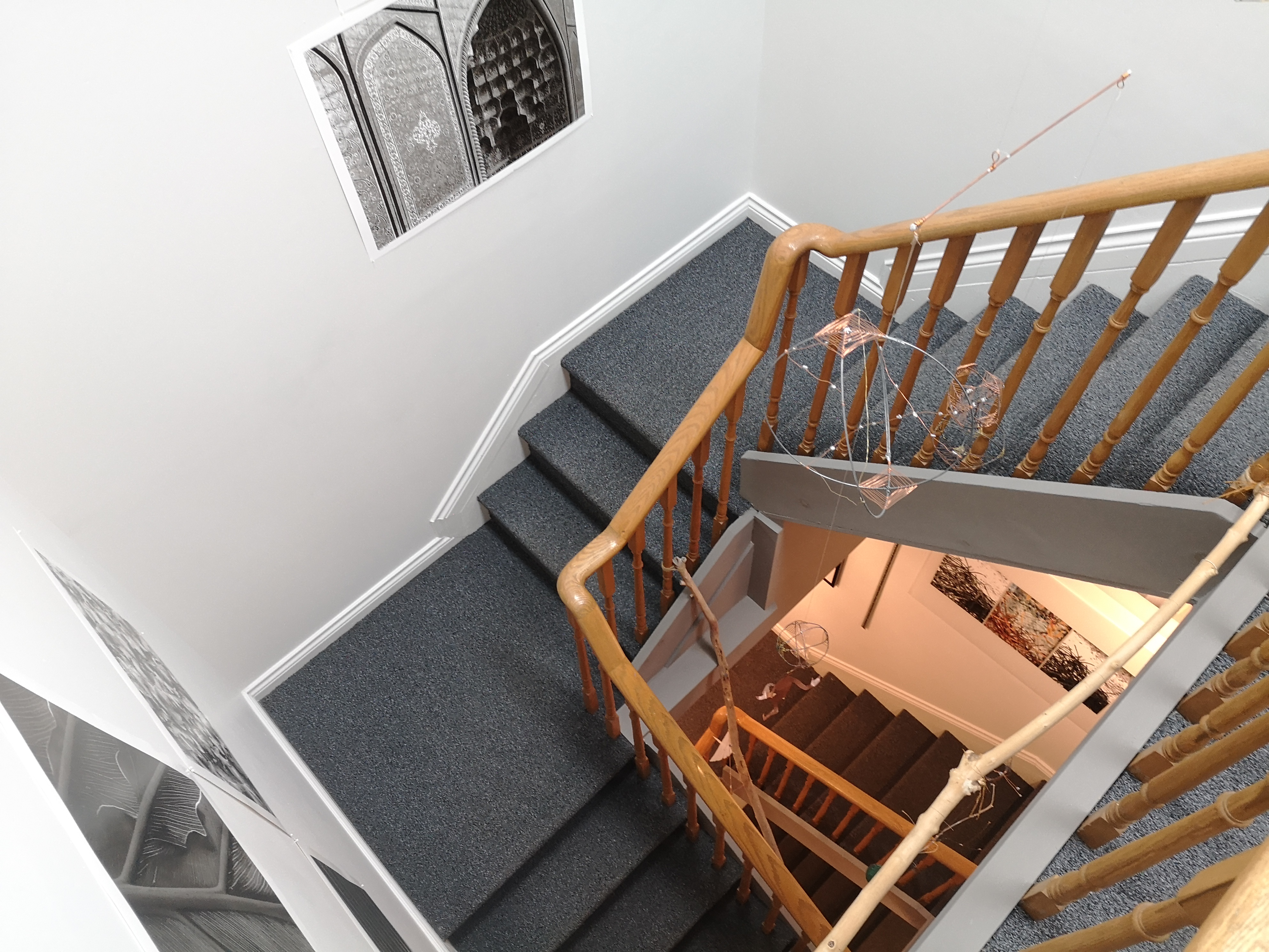 View from the top of the Ascending Gallery at Gallery Arcturus, an art galley and museum in Toronto.